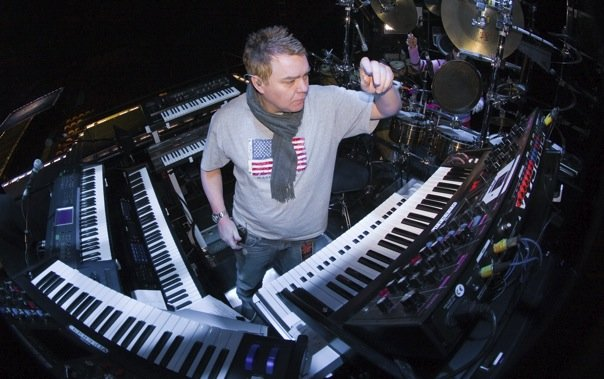 Simon Ellis (Musical Director) - The Return of The Spice Girls 2008